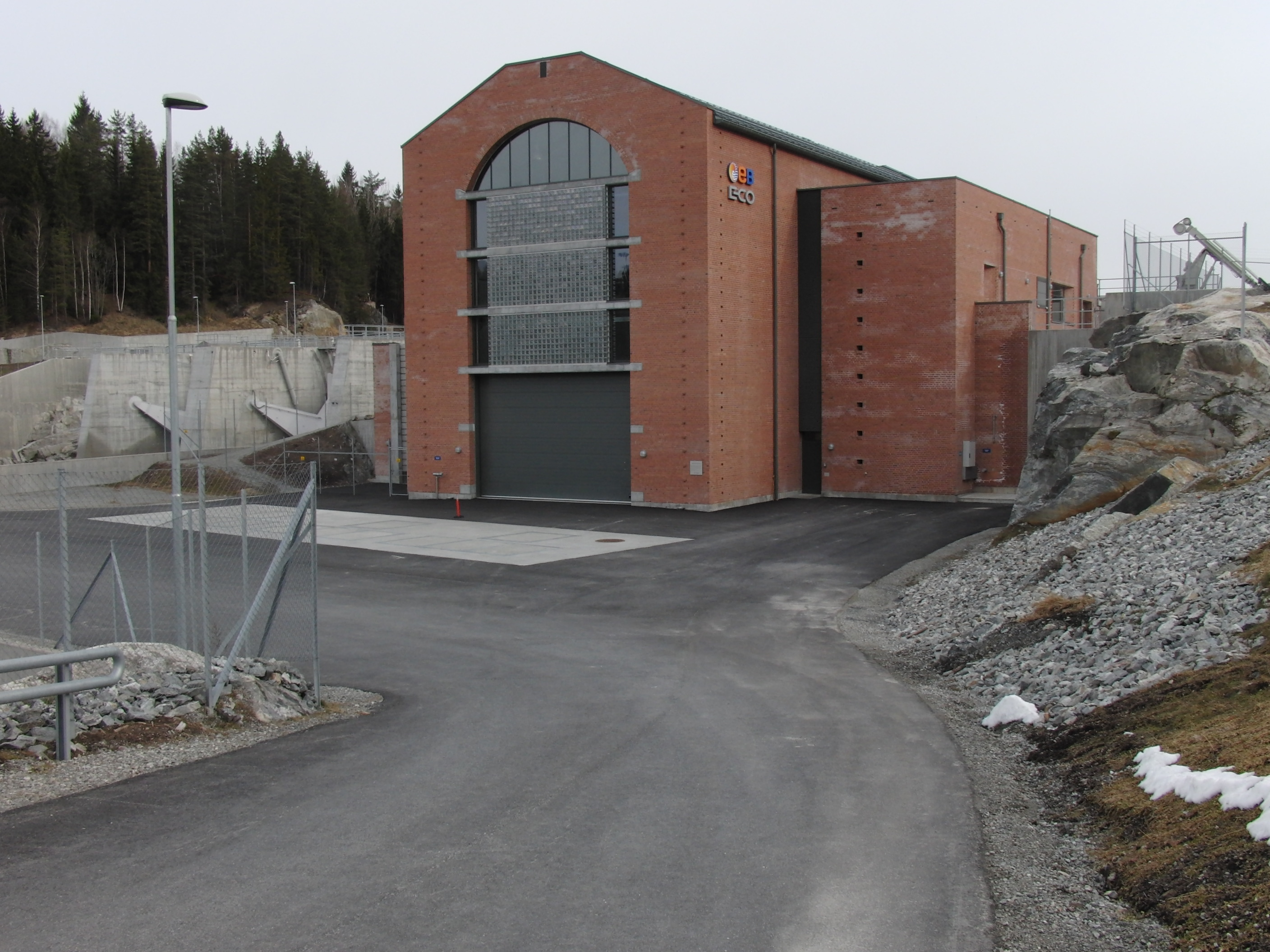 Embretsfoss 4